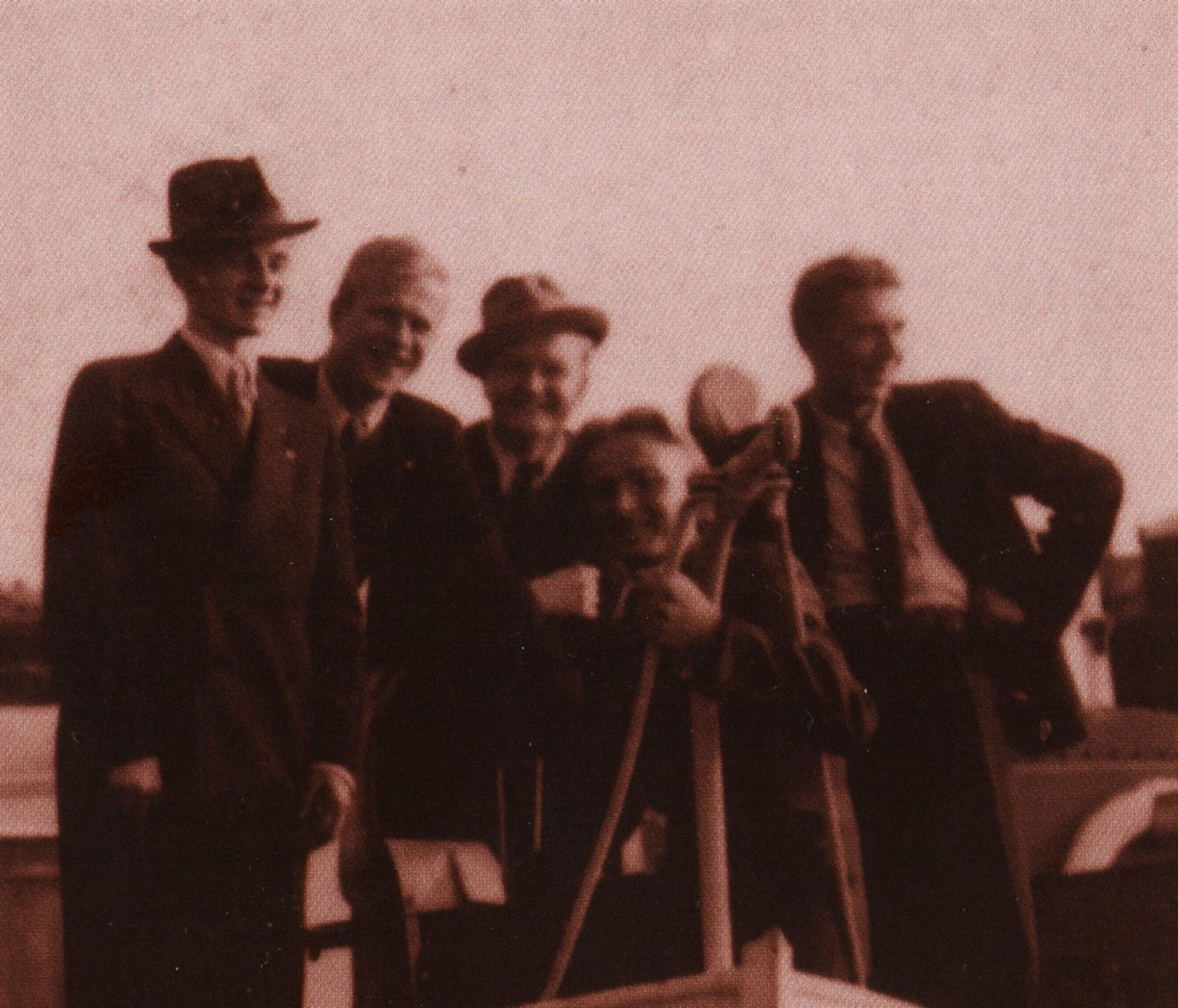 Most popular Lithuanian music group of the early 1940s